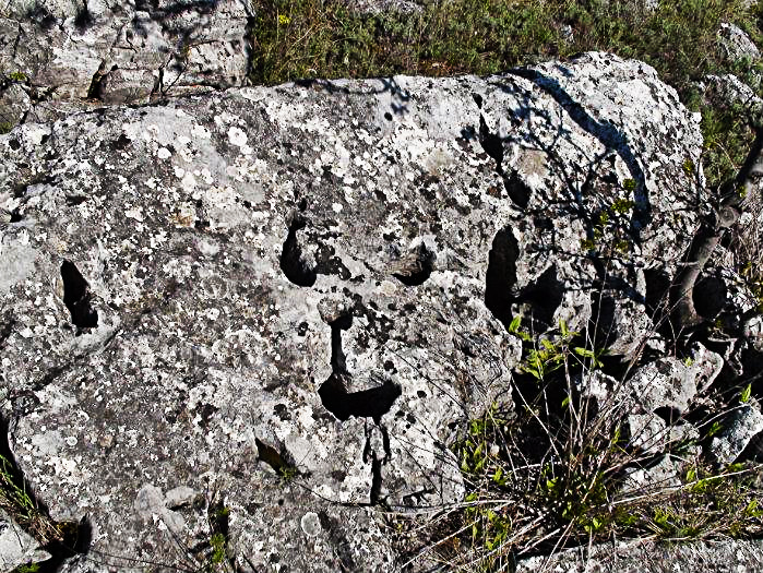 Solar shrine Paramun BG